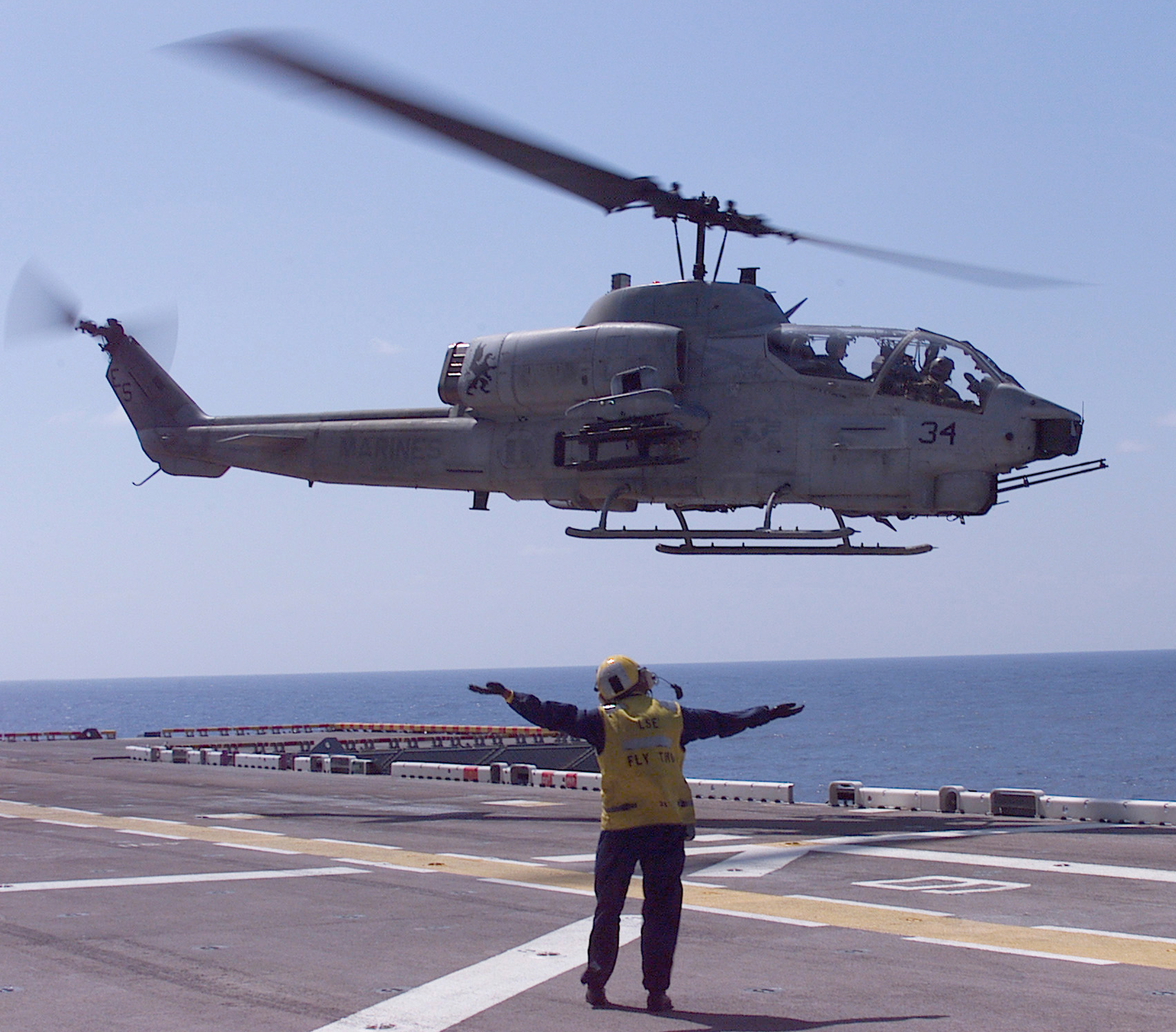 Submitted by: 24th MEU Operation/Exercise/Event: TRANSLANT Caption: Marine pilots of an AH-1W Cobra Attack Helicopter practice "touch and gos" April 28 aboard the USS Kearsarge during the 24th MEU (SOC)'s Trans-Atlantic voyage to the Mediterranean Sea to begin their six-month deployment.